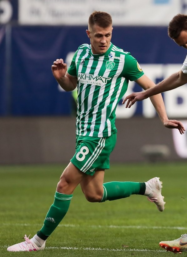 Damian Szymański with FC Akhmat Grozny in a game against FC Dynamo Moscow.